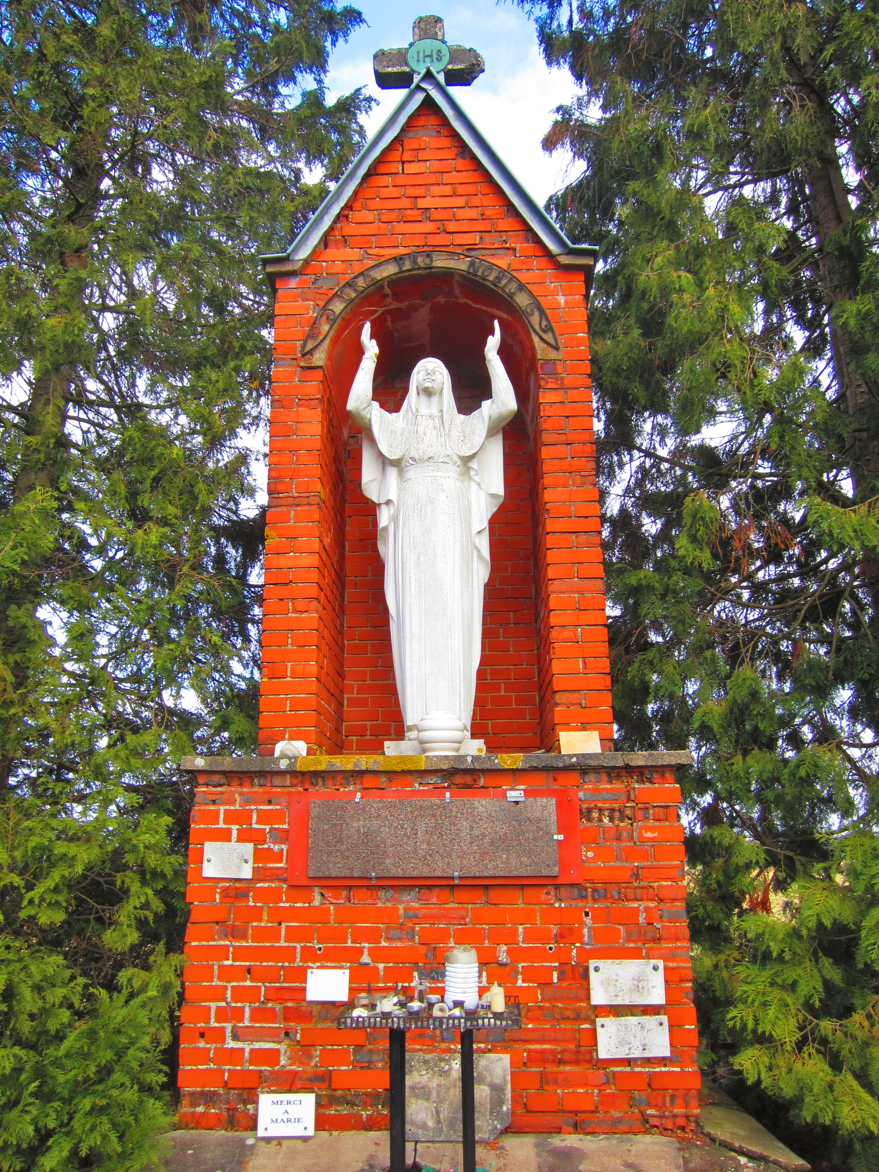 Piblange virgin statue